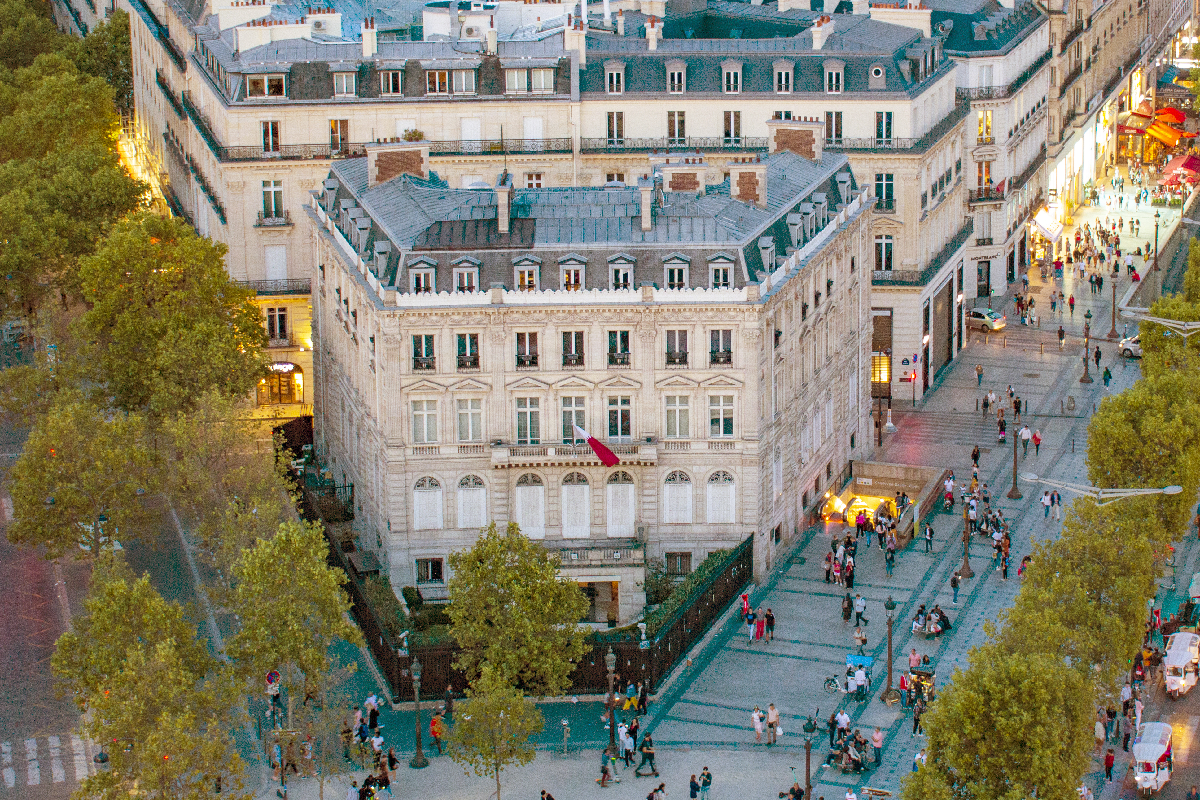 Hôtel Landolfo-Carcano from the Arc de Triomphe, Paris.